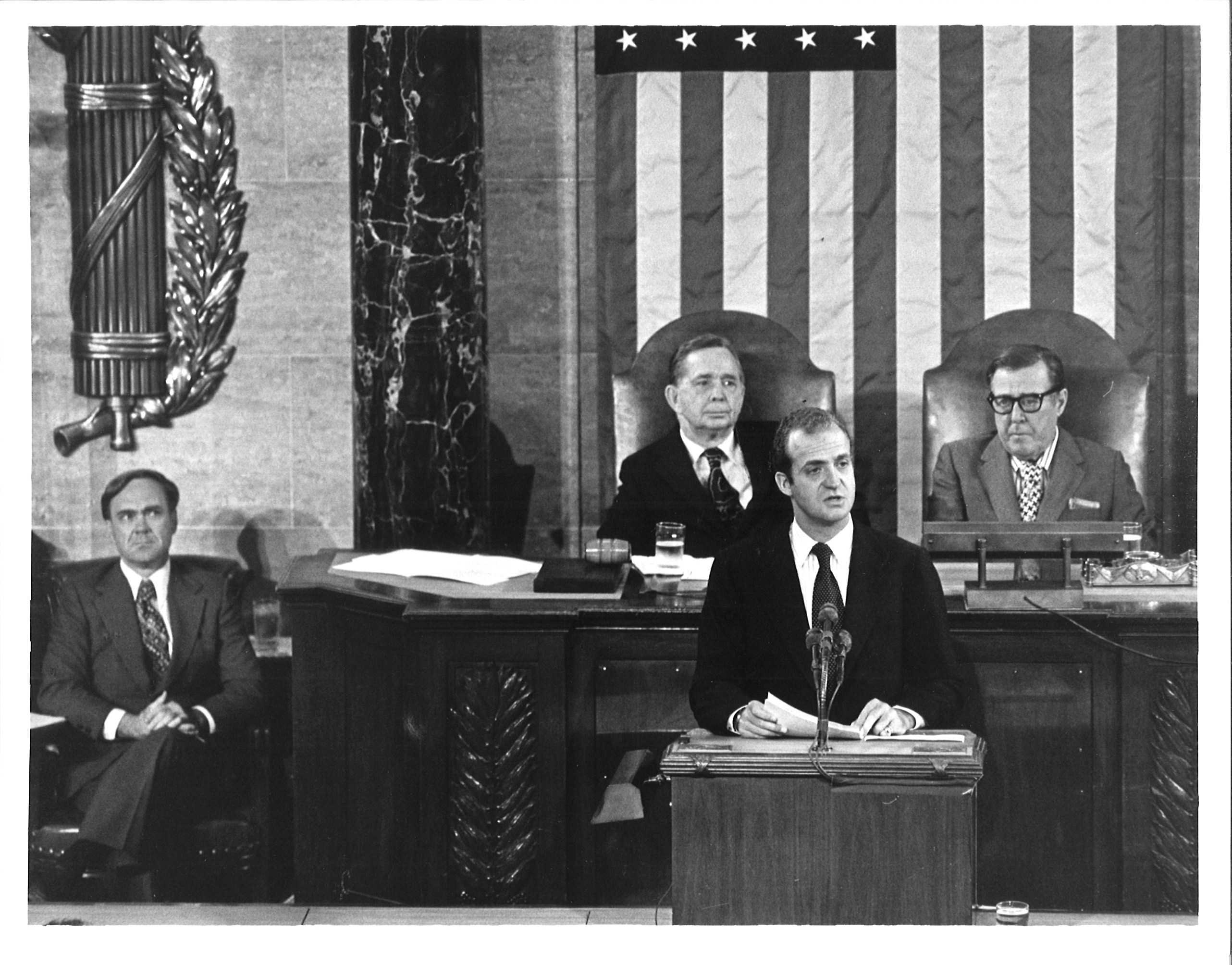 King Juan Carlos of Spain addressing Congress. Carl Albert is also shown. June 6, 1976